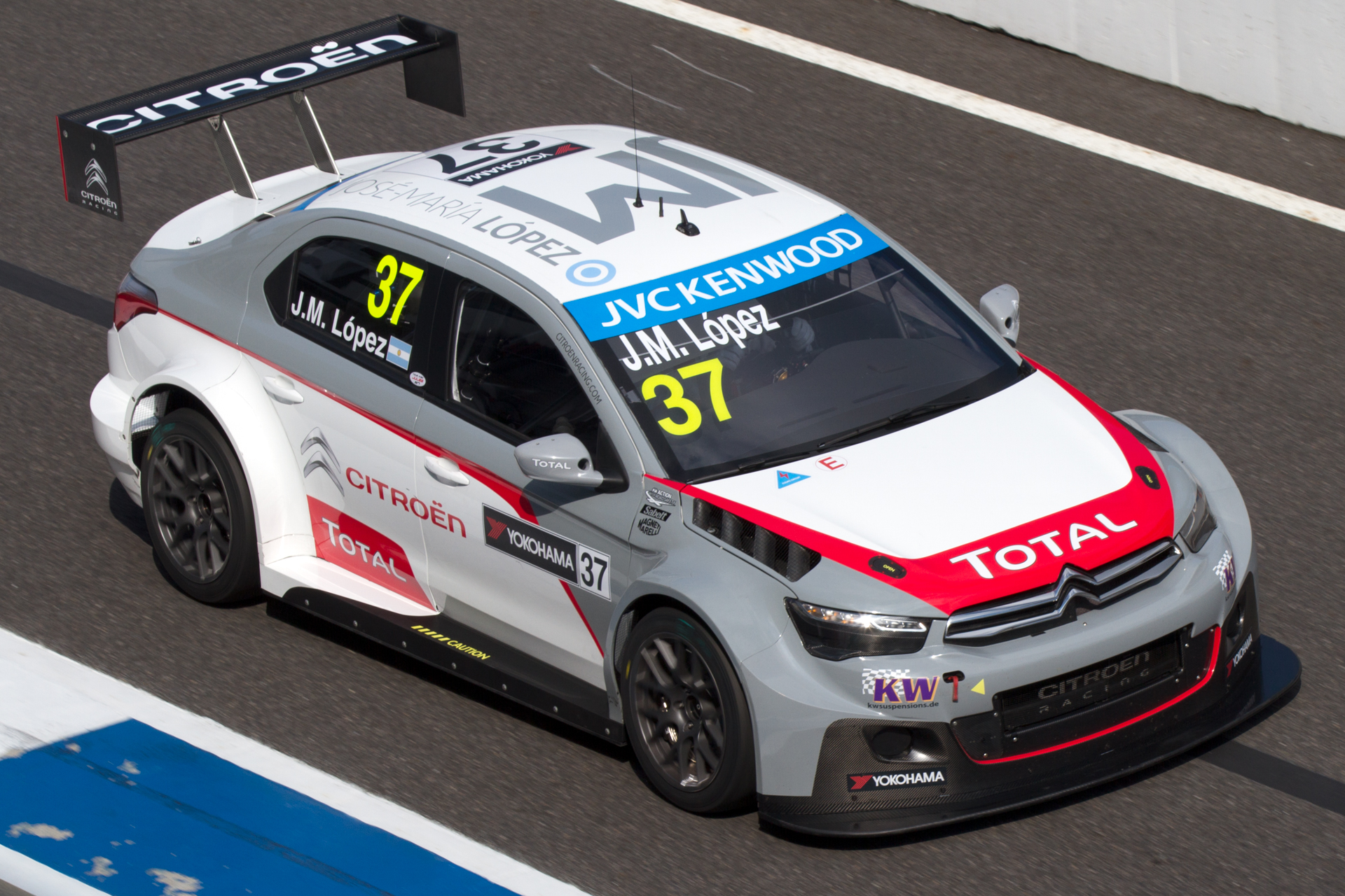 World Touring Car Championship 2014 Race of Japan: José María López (Citroën)